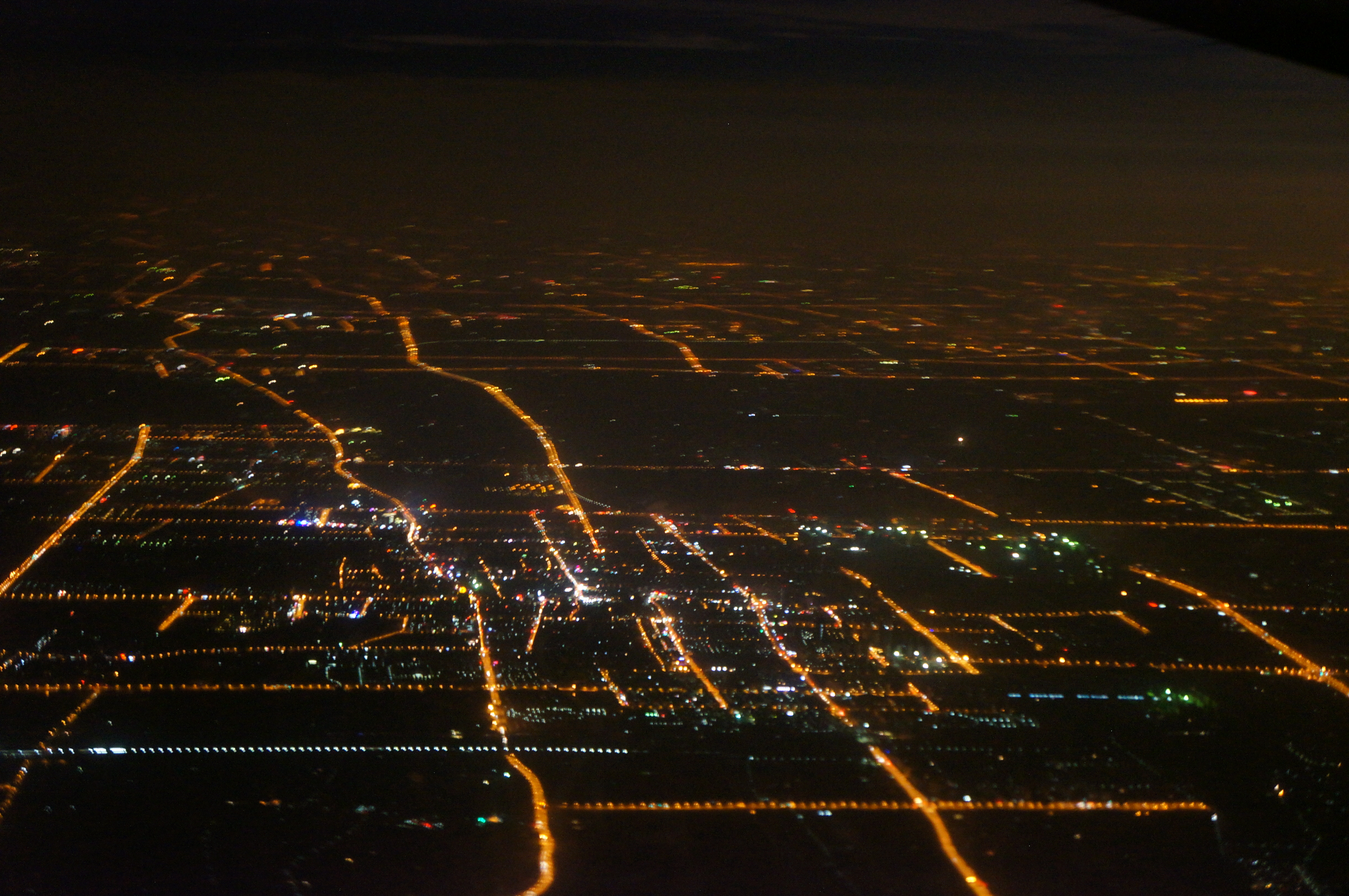 201610 Aerial photo of Huinan in night惠南